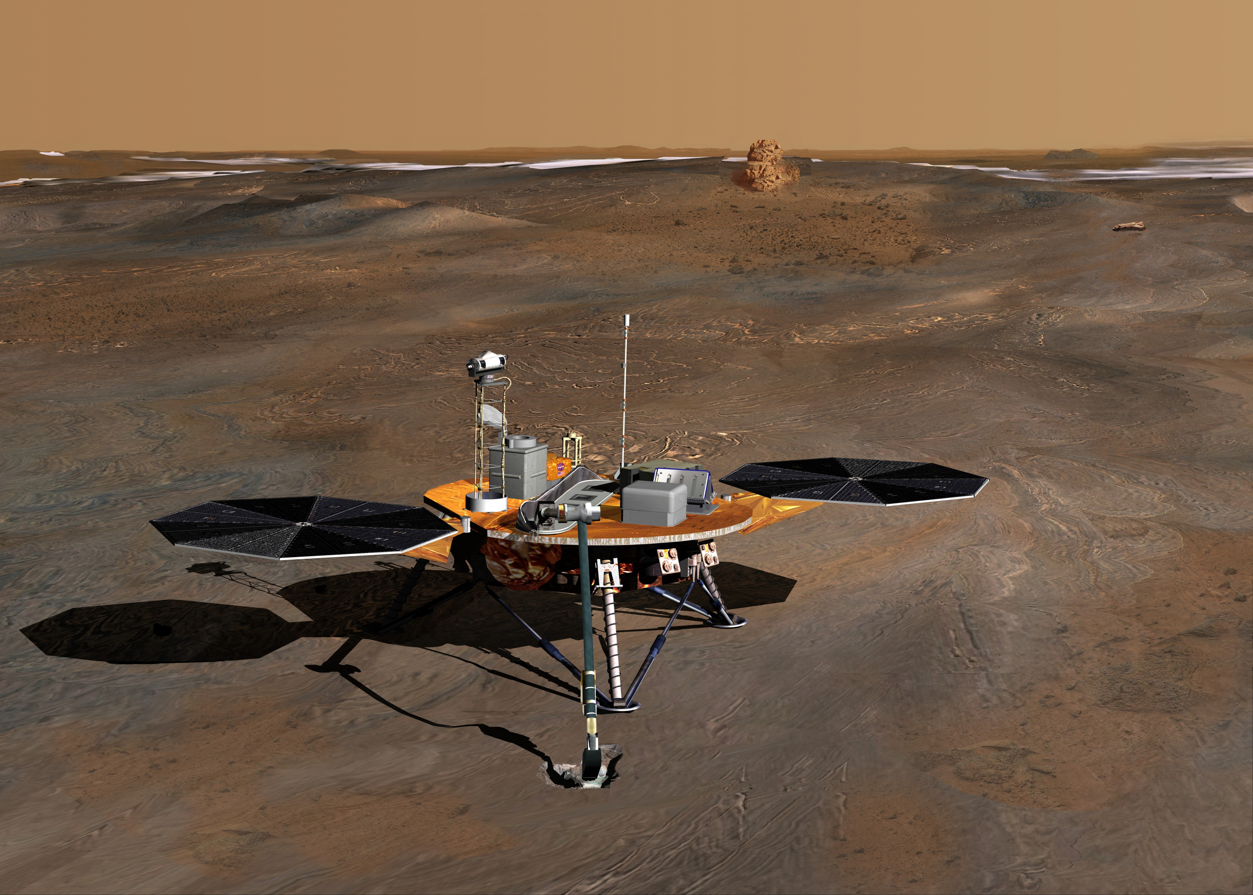 Artist's concept of the Phoenix Mars lander.